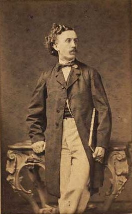 Bertel Christian Budtz Müller (1837-1884), Danish photographer